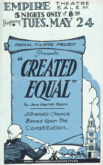 Poster for the premiere of the Federal Theatre Project production of Created Equal, at the Empire Theatre, Salem, Massachusetts